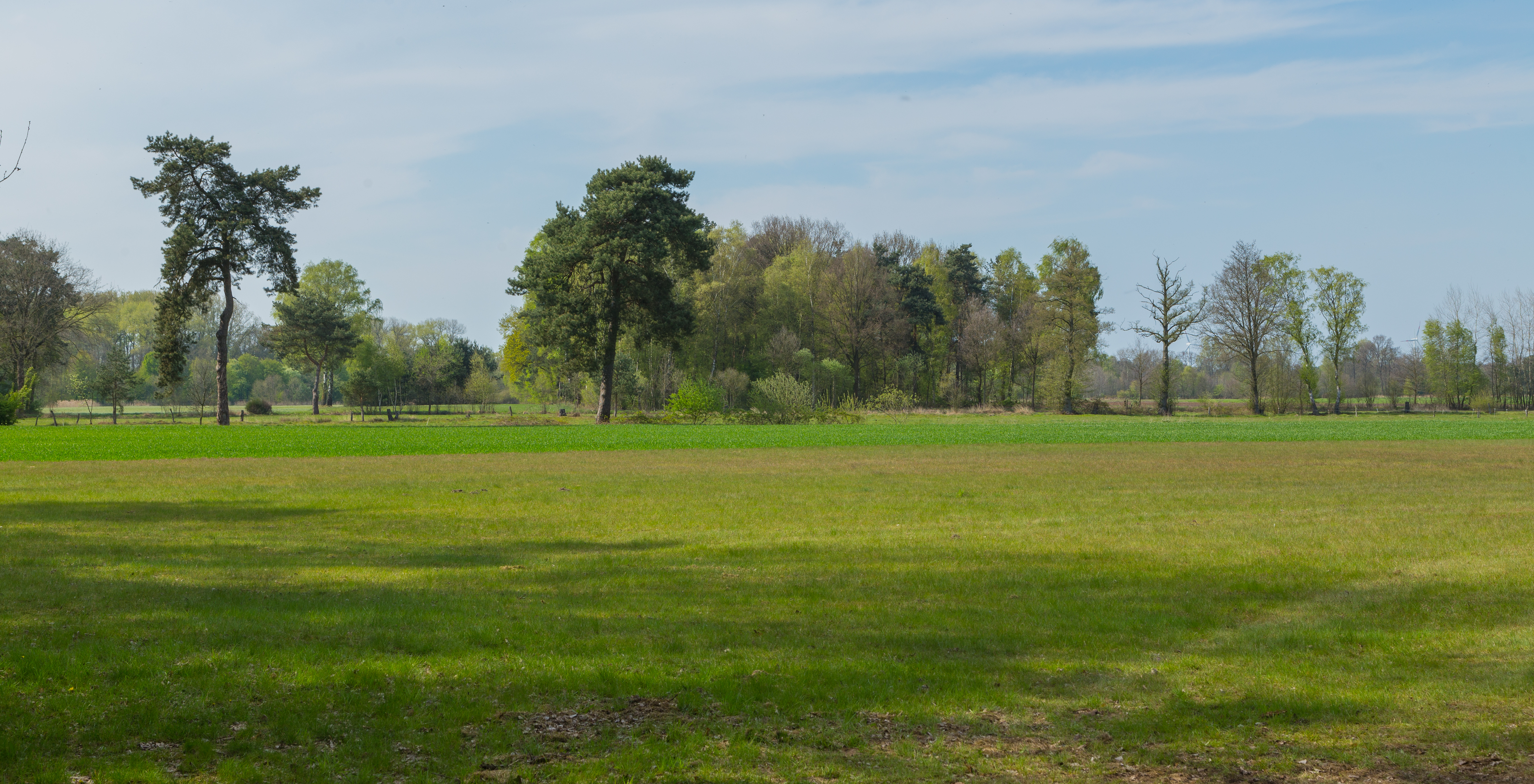 Meadow in the nature reserve (Naturschutzgebiet) „Am Janhaarspool“ in Tecklenburg-Brochterbeck, Kreis Steinfurt, North Rhine-Westphalia, Germany.